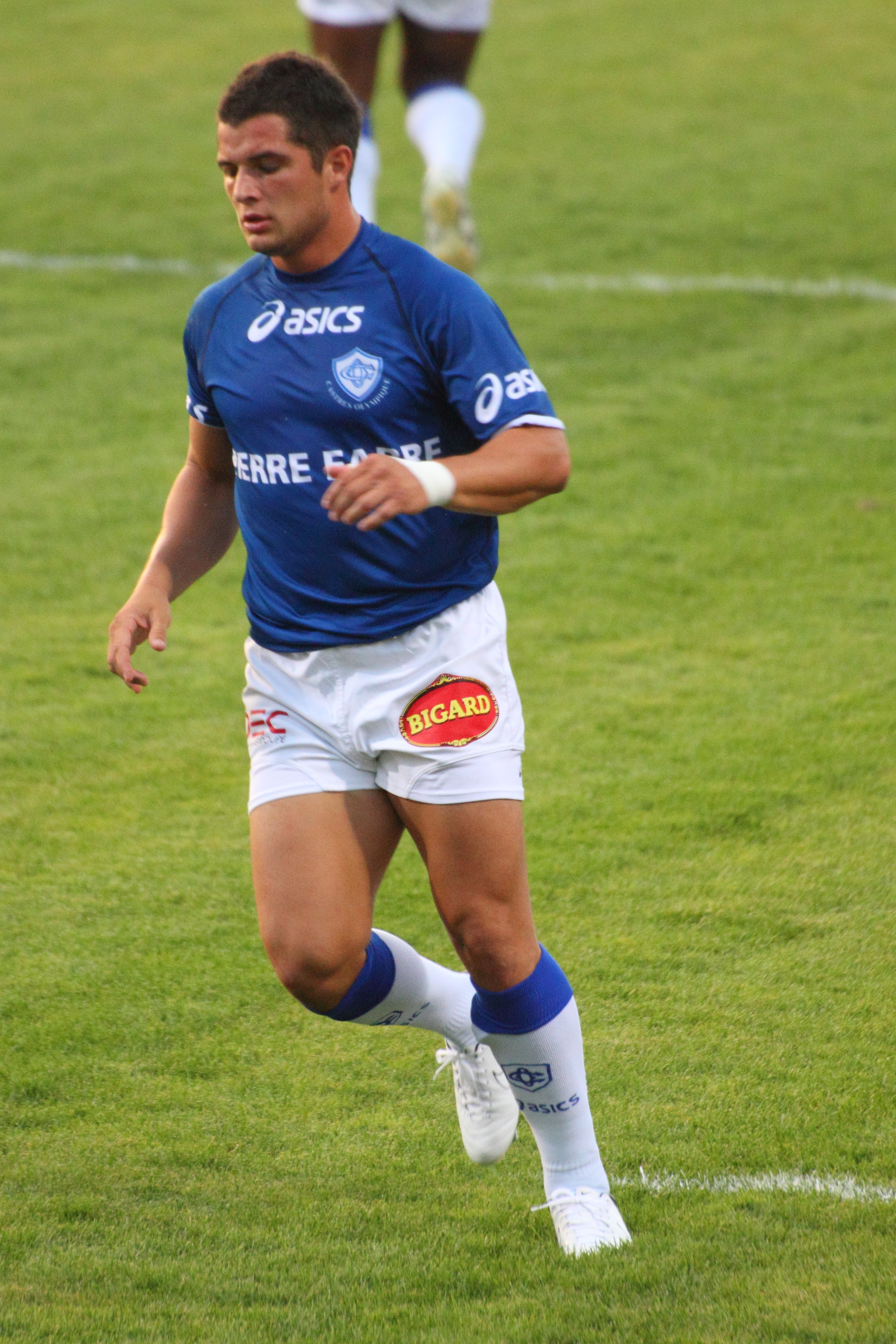 Top 14 — 17 August 2012, Stade Ernest-Wallon. Match between: Stade toulousain — Castres olympique